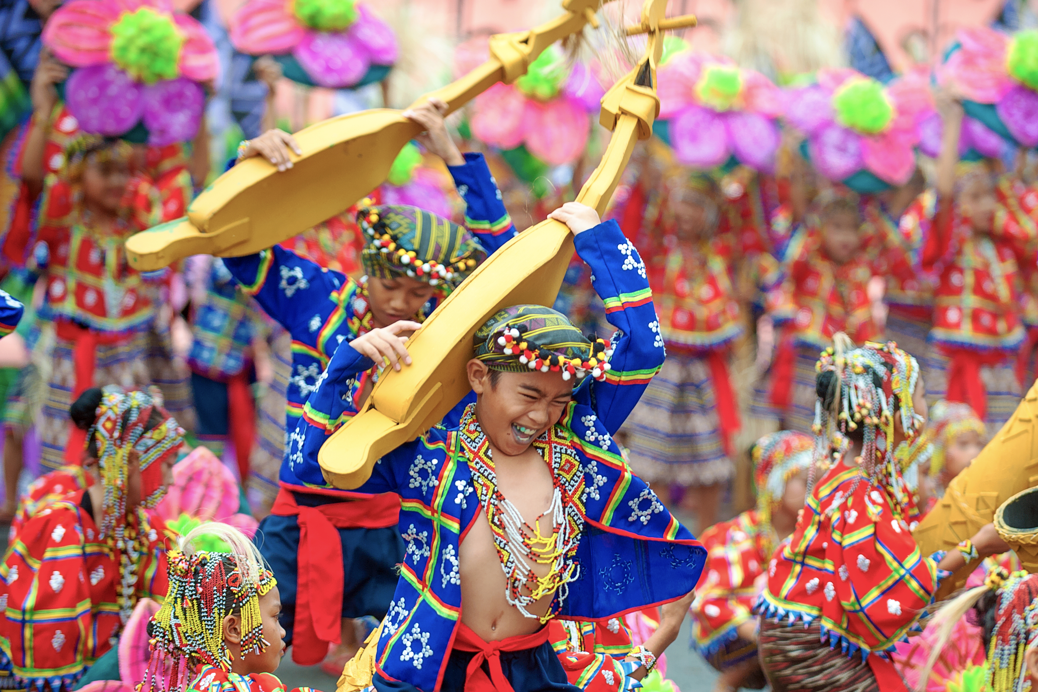 Kadayawan Festival of Davao City, Philippines This photo has been taken in the country: Philippines